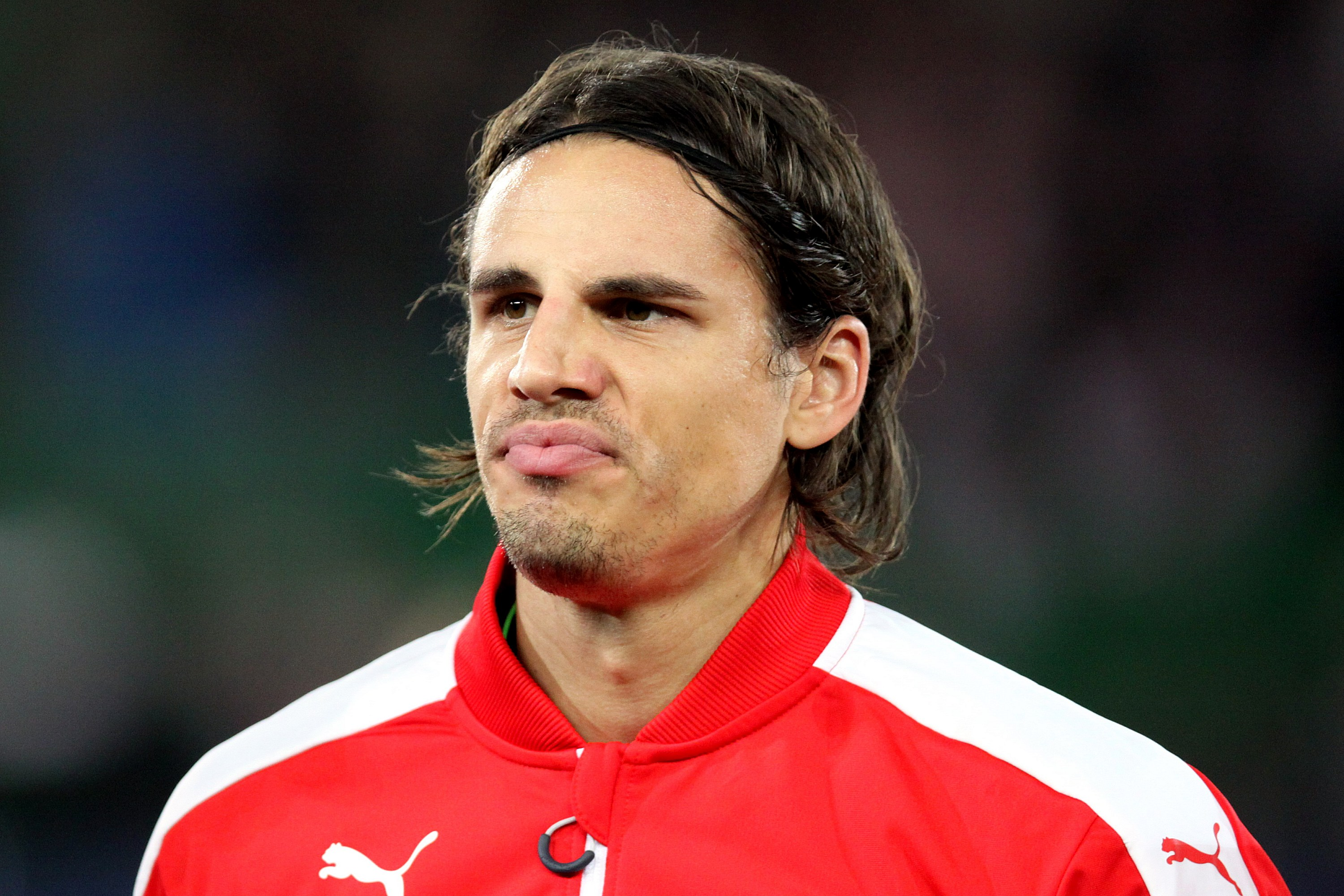 Friendly match – Austria (red shirts) vs. Switzerland (white shirts) 1-2 (1-2) – 2015-11-17 in Vienna, Ernst-Happel-Stadion – The photo shows the goalkeeper of Switzerland Yann Sommer.